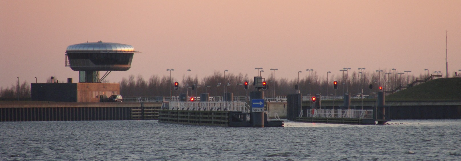 The Naviduct near Enkhuizen, an aqueduct containing a lock.